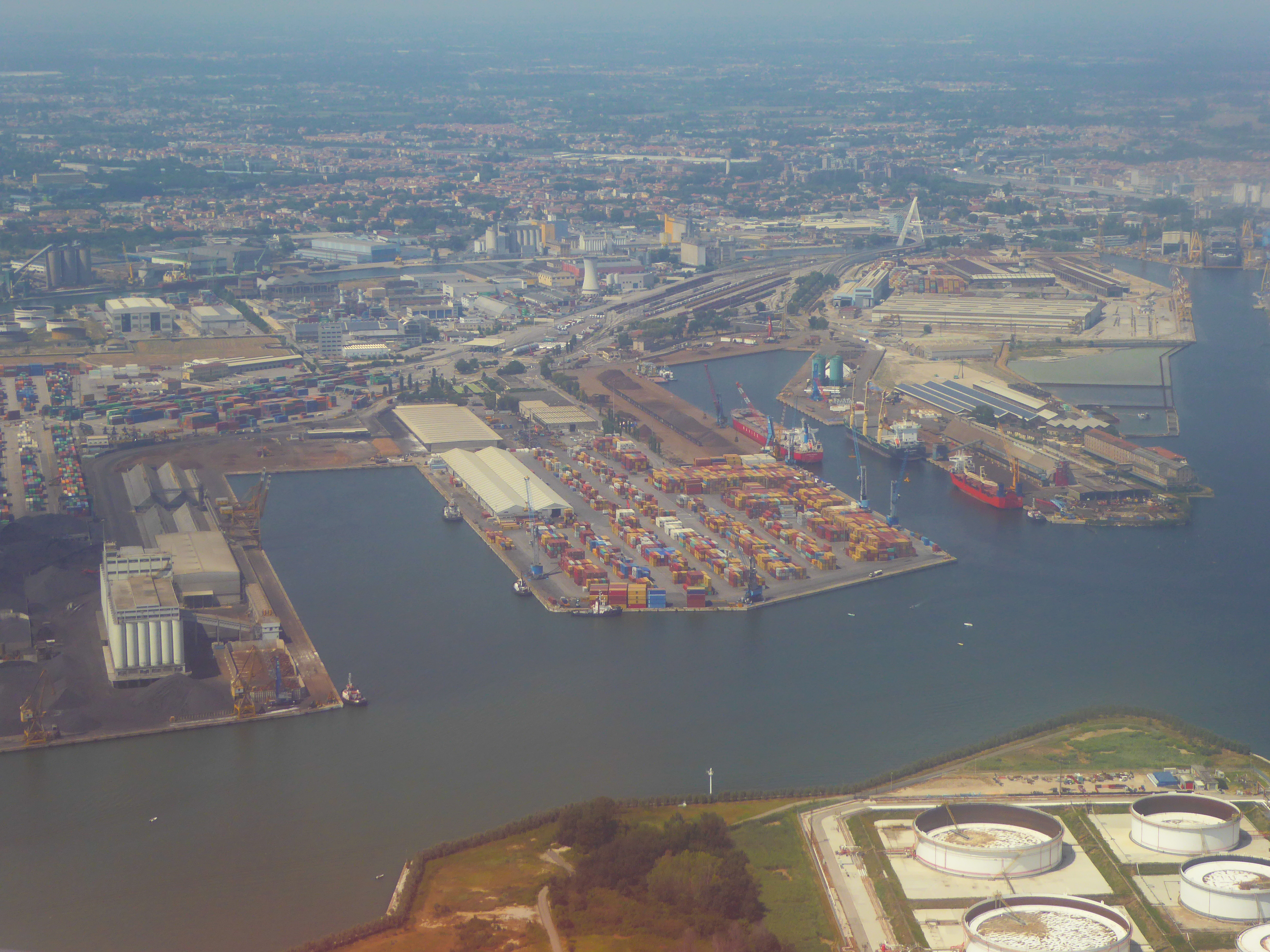 Porto Marghera aerial view